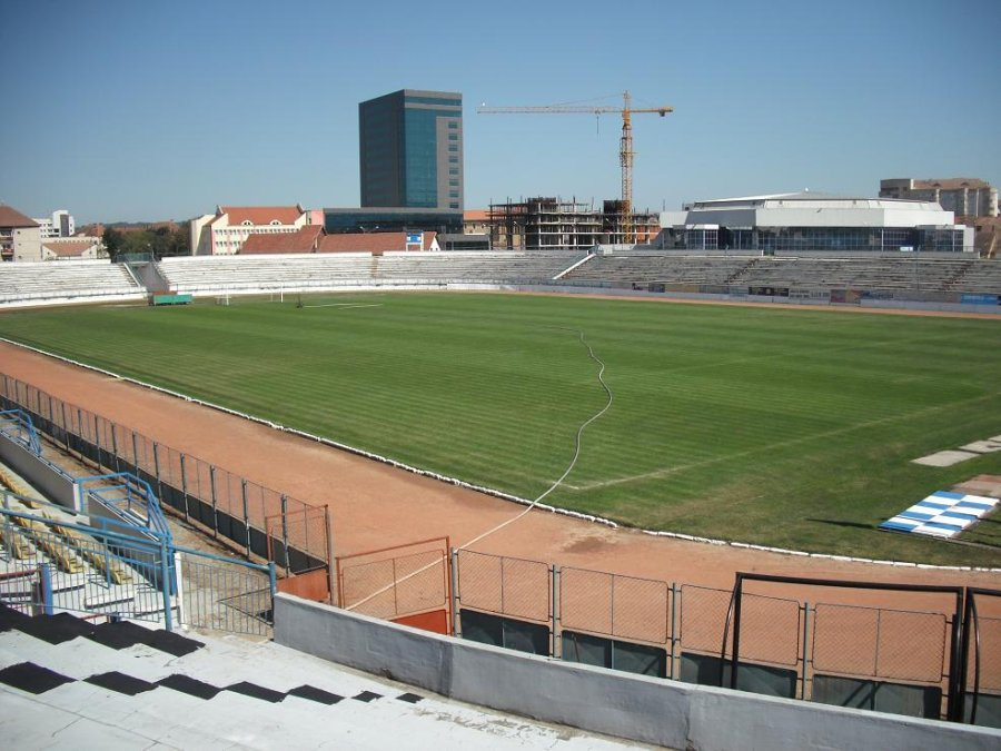 Photo of the Municipal Stadium in Sibiu.